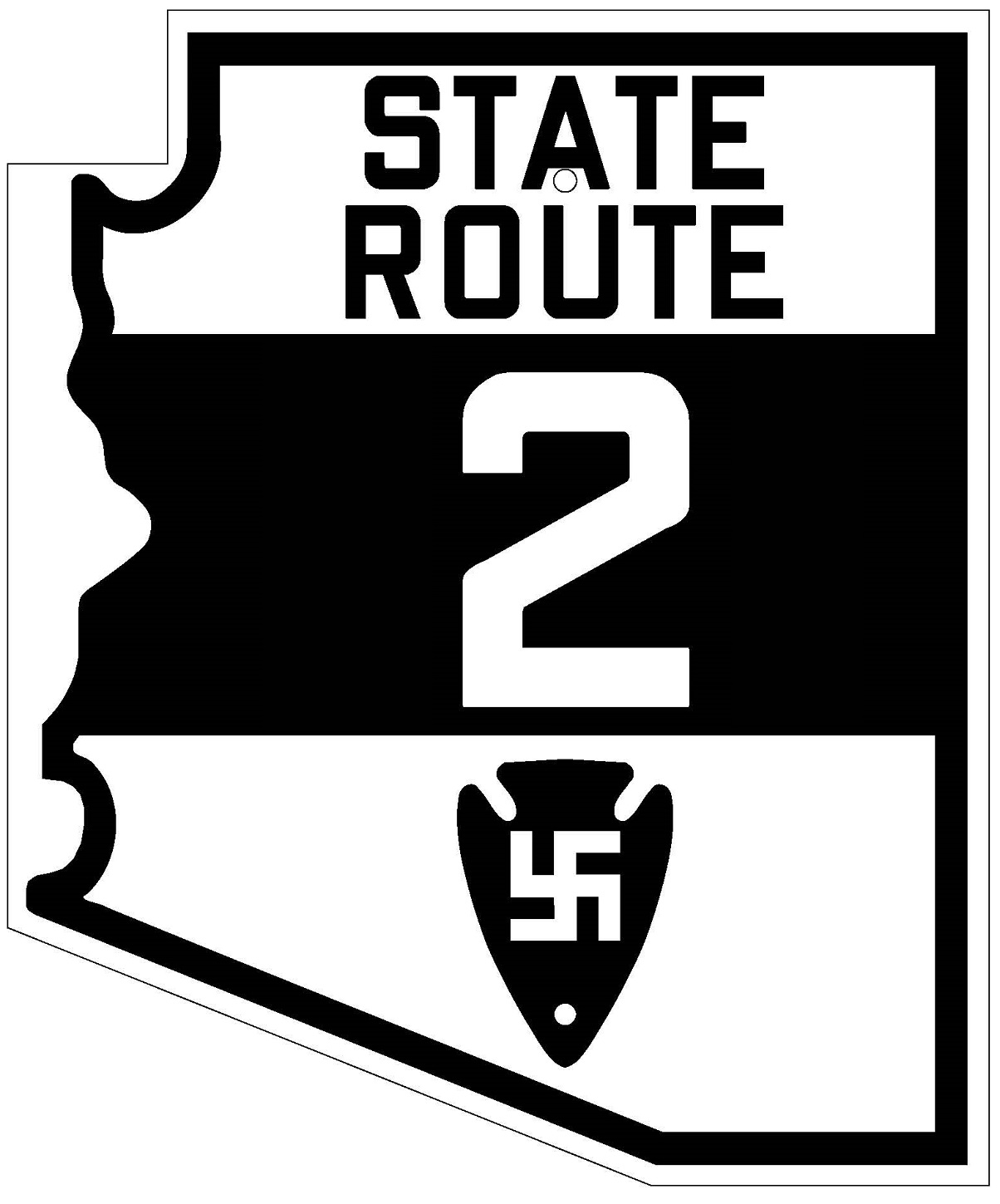 Arizona State Route 2 sign, based off pictures found at: Shield Gallery aaroads shield gallery. A 1927 Specification Arizona State Route Shield, traced from a picture of a real shield and sized to match File:Arizona 71 1927.svg. The Swastika on the shield is historically accurate and represents a Native American design and is not to be associated with Adolf Hitler or the Nazis.